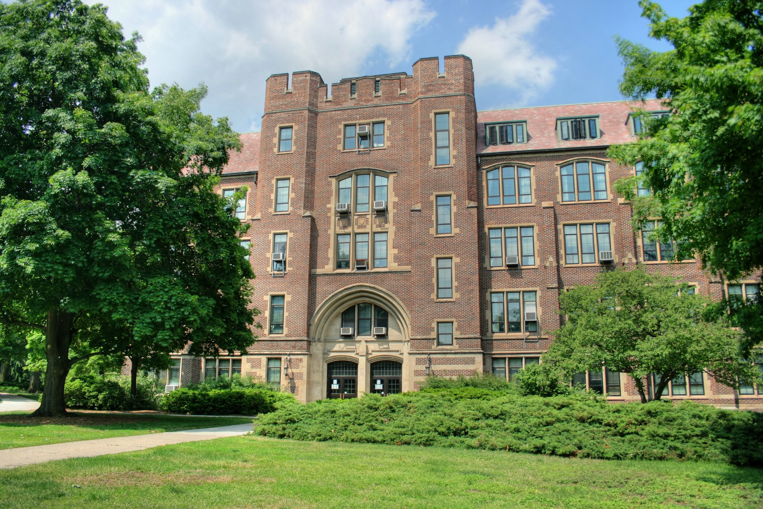 A photograph of the Human Ecology Building located on the Michigan State University campus in East Lansing, Michigan. This photograph is one of a series taken for Wikipedia by the submitter on May 28th, 2006 between the hours of 3pm and 6pm.